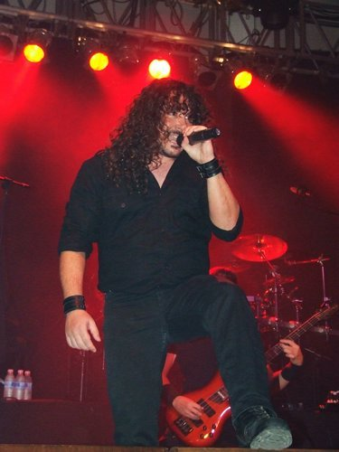 Víctor García singing live in Senderos del Rock Festival in Spain, 2005.